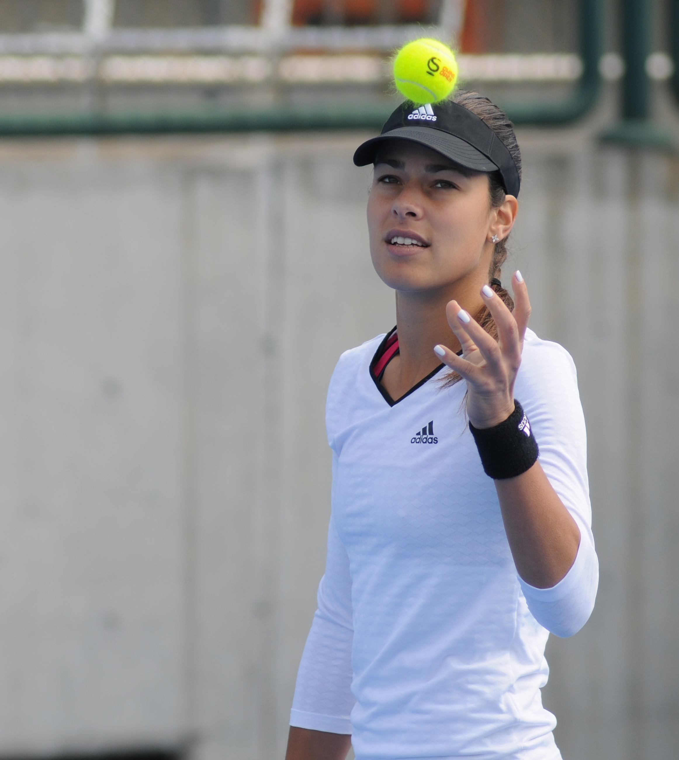 Ana Ivanović at the 2014 China Open